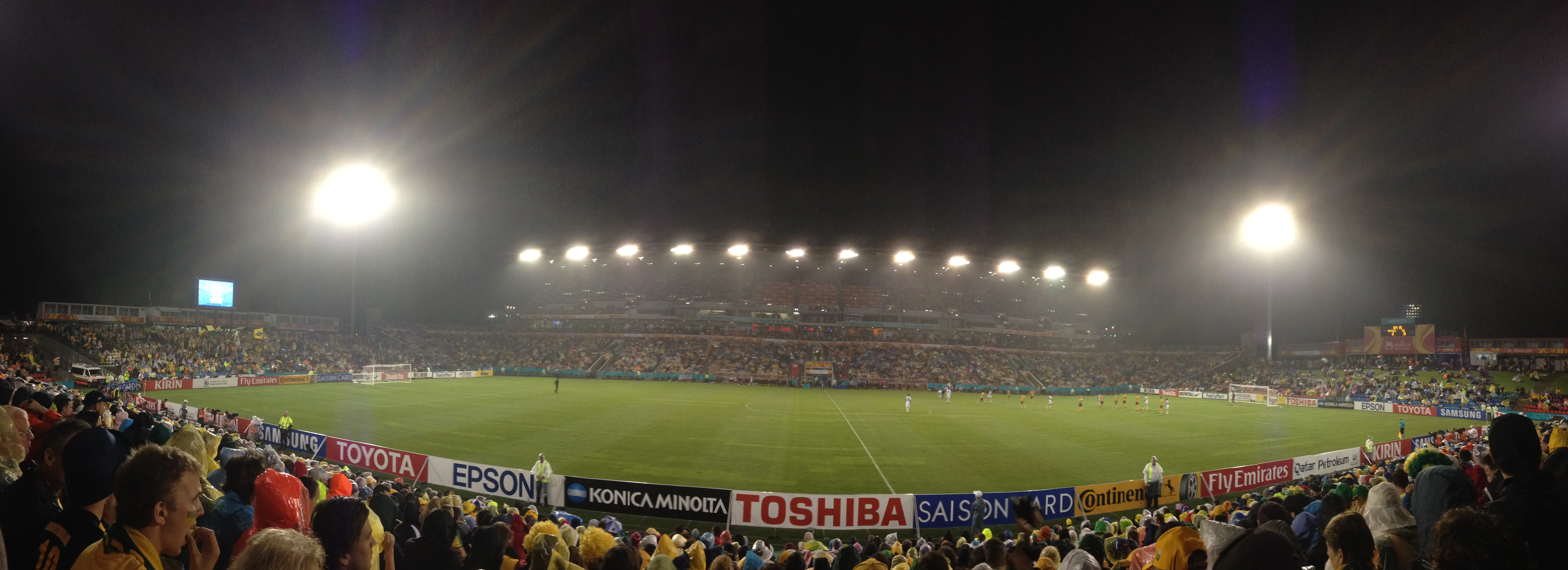 Hunter Stadium at night during the 2015 AFC Asian Cup semi-final between Australia and the UAE.